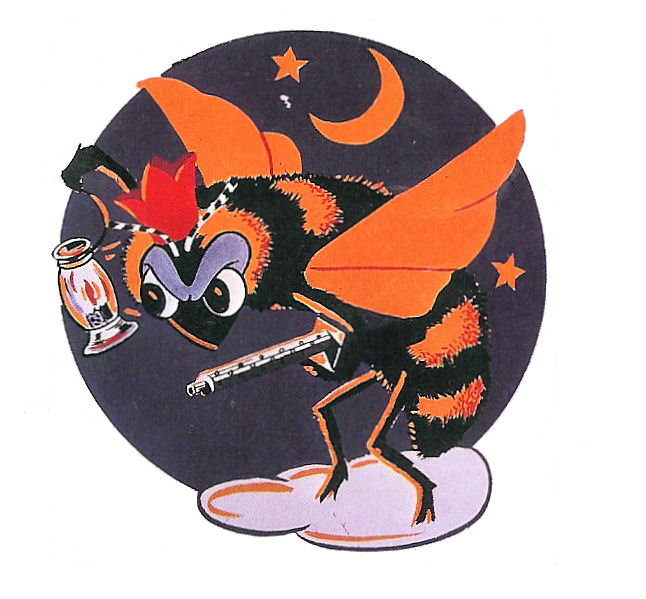 Emblem of the 418th Night Fighter Squadron from the AF Historical Research Agency